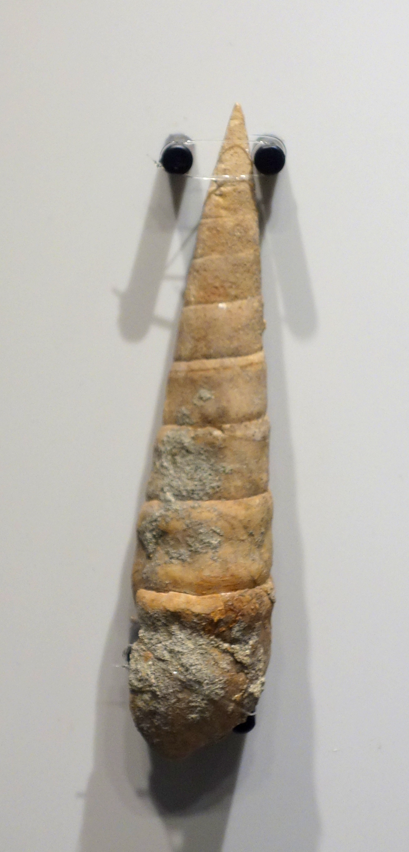 Pseudomelania elegantula. Exhibit in the National Museum of Nature and Science, Tokyo, Japan.